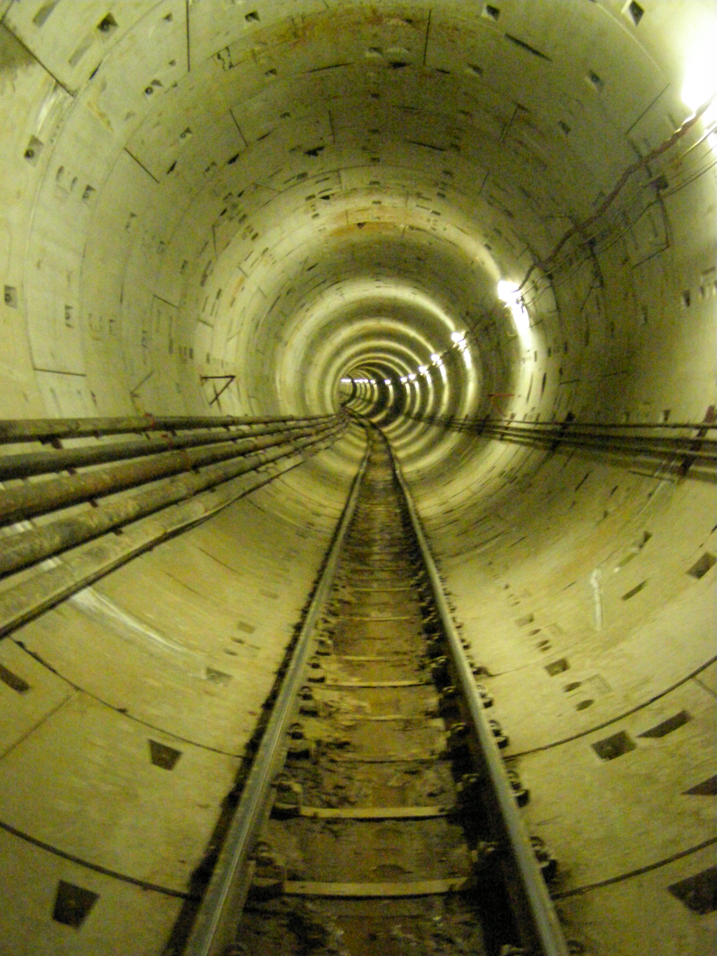 Tunnel of Thessaloniki's Metro during the construction phase.